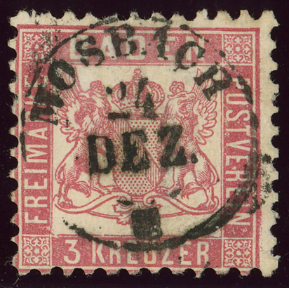 Duchy of Baden 3 kreuzer stamp, issue 1862, cancelled at MOSBACH.